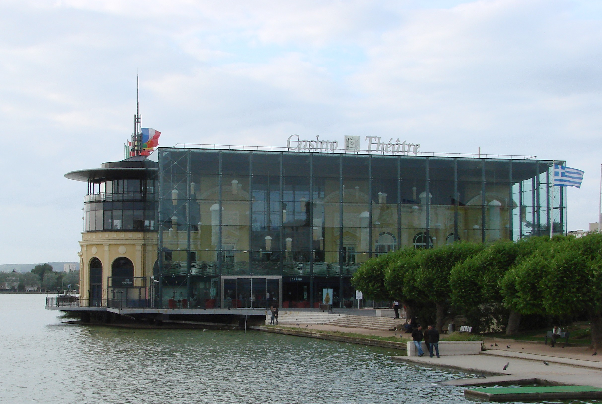 Enghien-les-Bains, France, the Casino